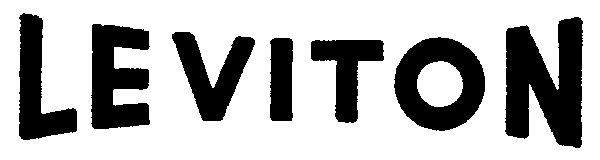 The original 1924 logo of Leviton Manufacturing Company, Inc. It was the main logo until circa 1968, but it likely continued to be stamped on the products themselves for many years afterward. Note: The trademark for the stylised 'Leviton' logo as shown is dead, according to the USPTO website. However, the word 'Leviton' is still a registered trademark of Leviton Manufacturing Co., Inc.